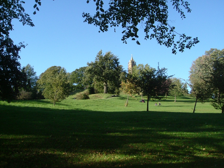 Brandon Hill park with Cabot Tower, from the nature reserve. Bristol, England. Evening, 18th September 2004.